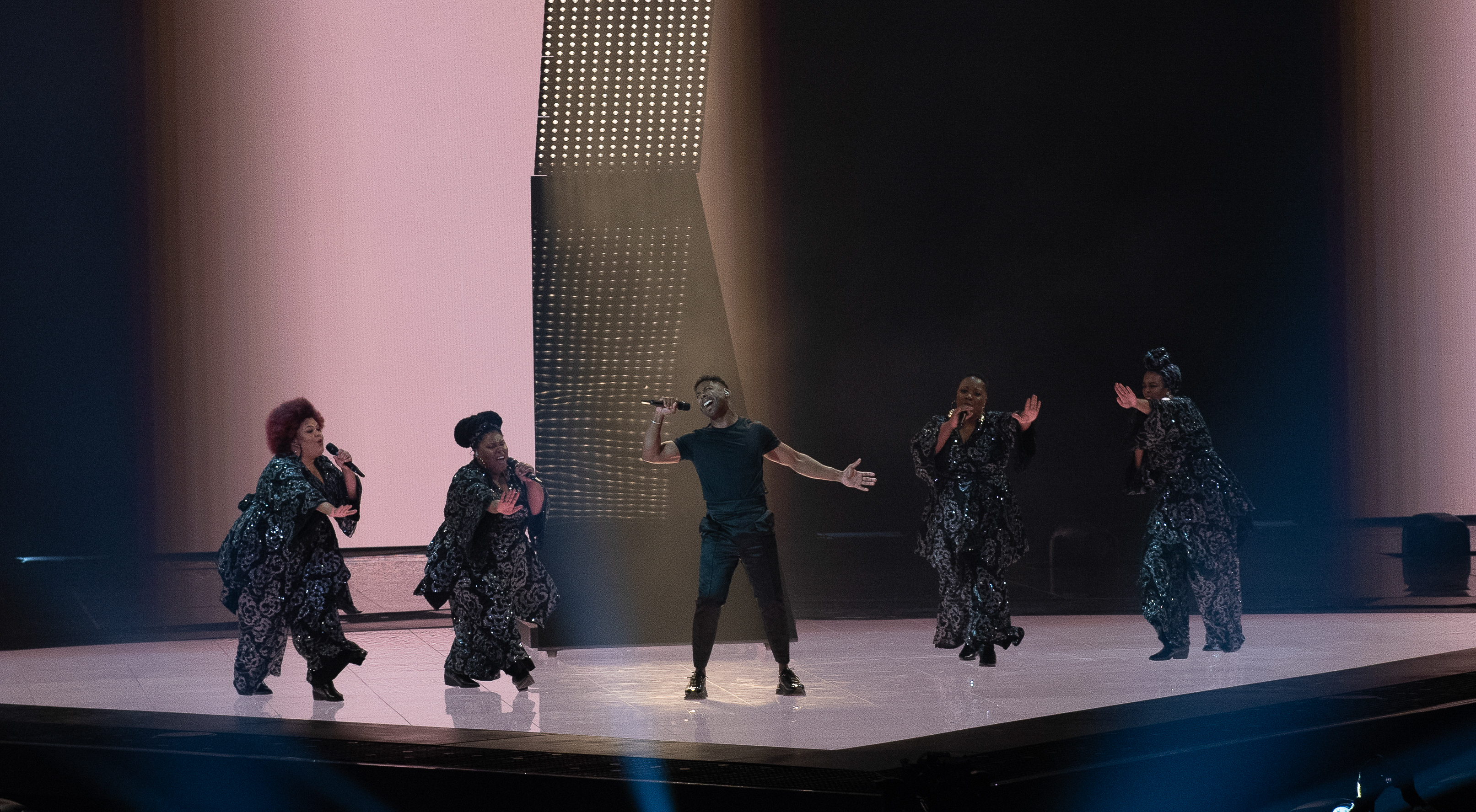 John Lundvik representing Sweden with the song "Too Late for Love" during a rehearsal before the second semi-final of the Eurovision Song Contest 2019 in Tel-Aviv.